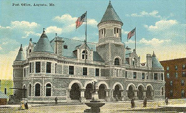 United States Post Office & Courthouse, Augusta, ME; from a c. 1915 postcard. Designed by Mifflin Bell, Supervising Architect of the Treasury, it was built in 1890 and subsequently enlarged.